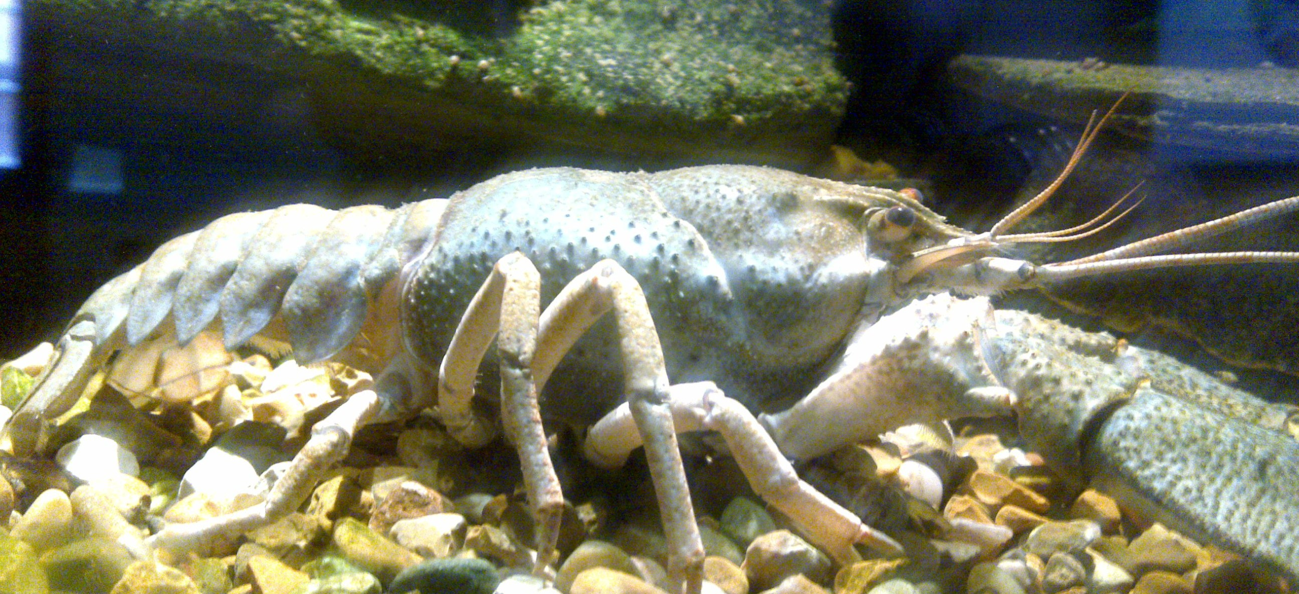 Astacus leptodactylus, London Zoo